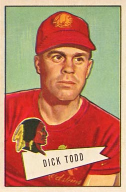 American football player Dick Todd (American football) on a 1952 Bowman Large card.